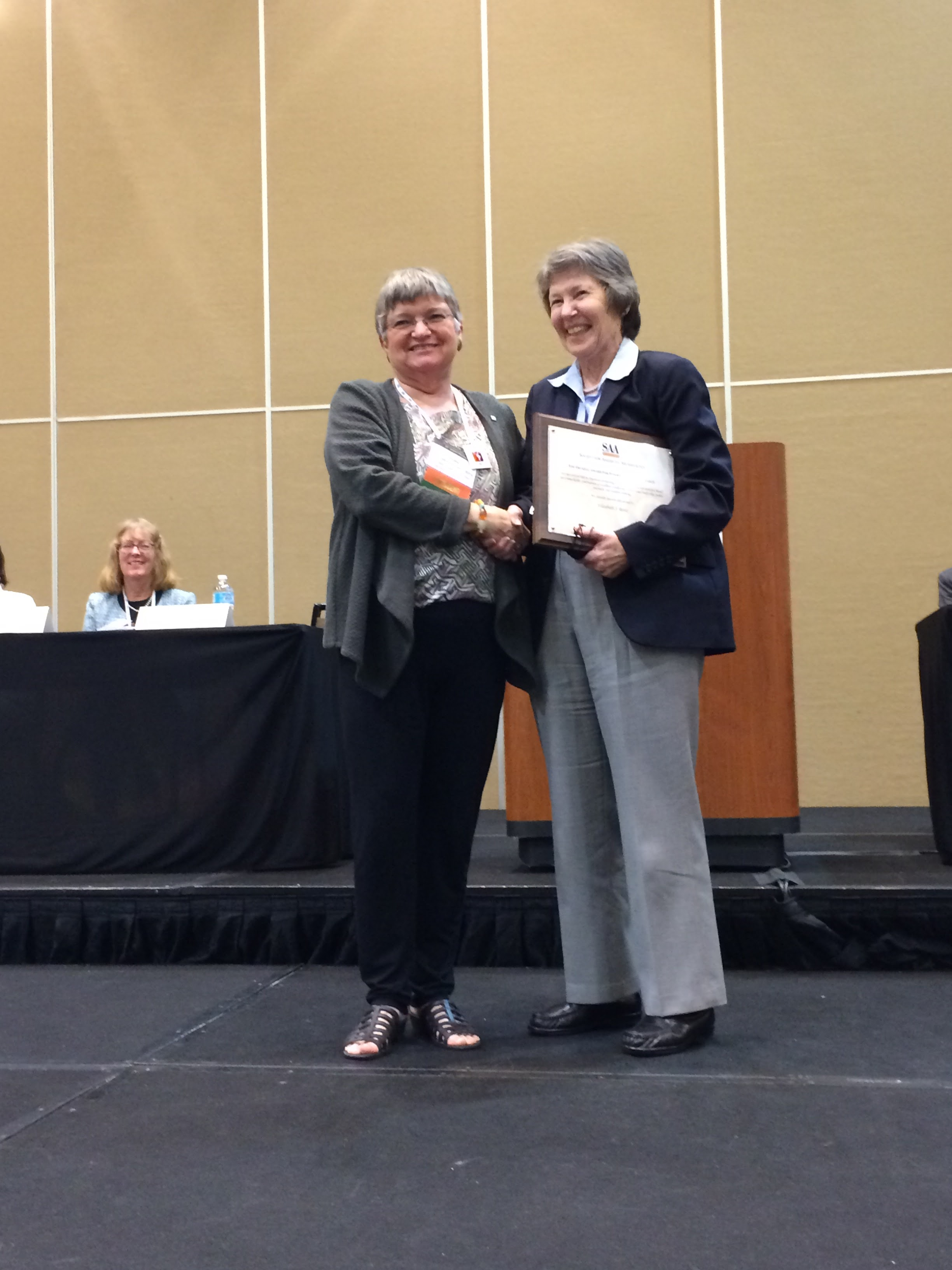 Dr. Elizabeth Reitz (right) receives the 2016 Society for American Archaeology's Fryxell Award from SAA President Dr. Diane Gifford-Gonzalez (left) at the SAA conference in Orlando, FL.